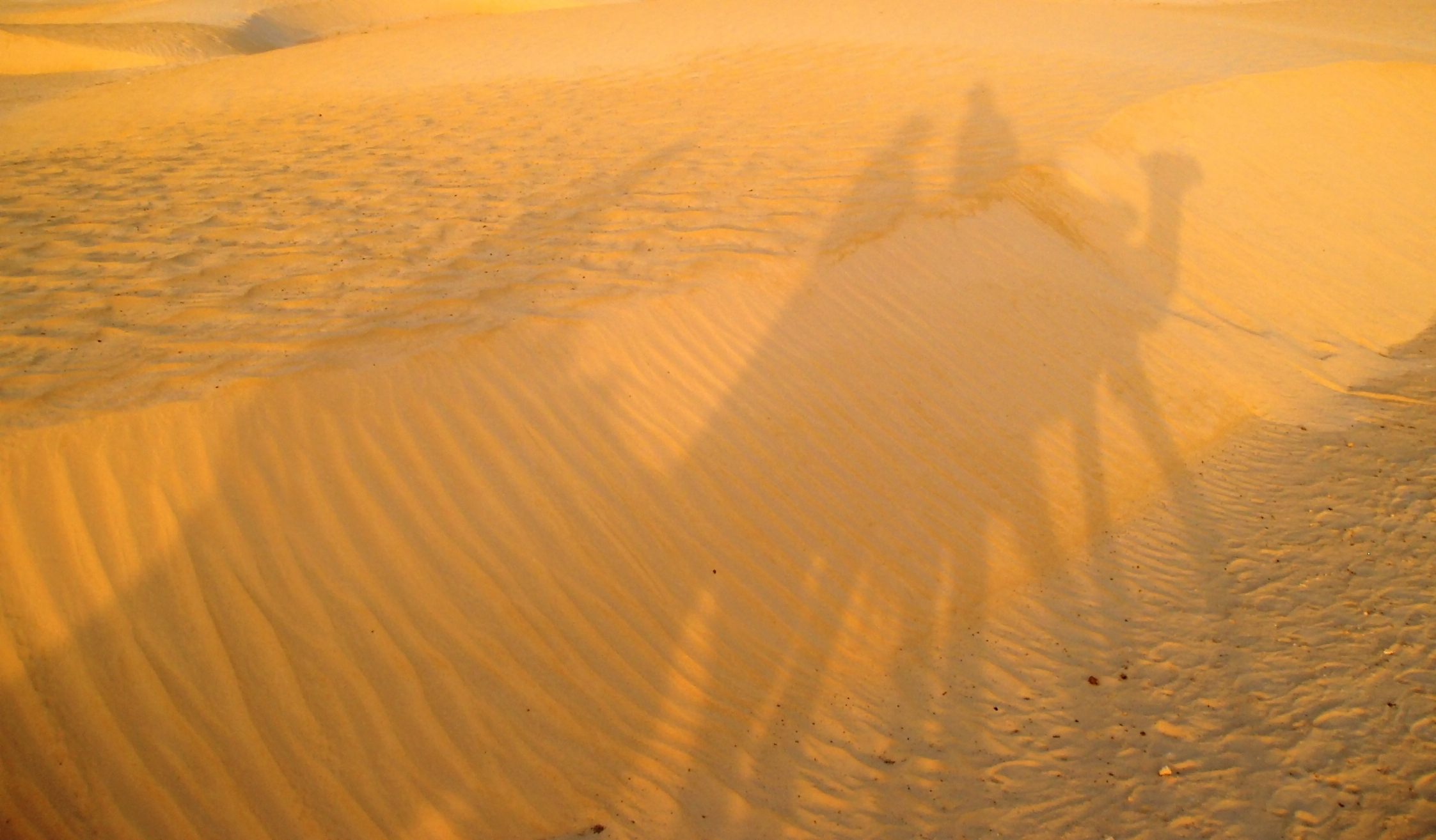 Sahara desert in Tunisia and shadows of camels with travelers.